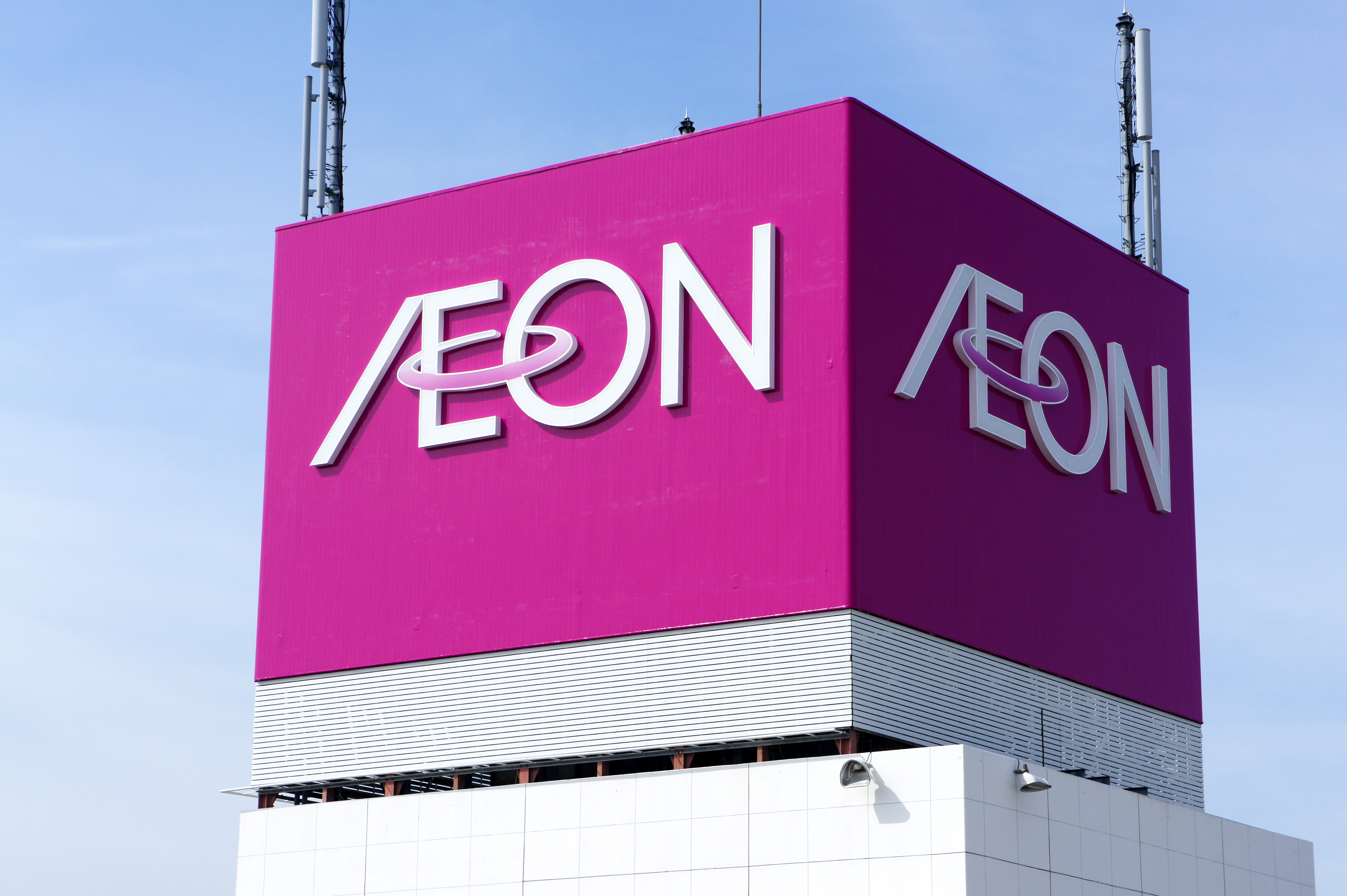 AEON Ibaraki,18-1 Nakatsu-cho Ibarakishi-shi Osaka Japan.